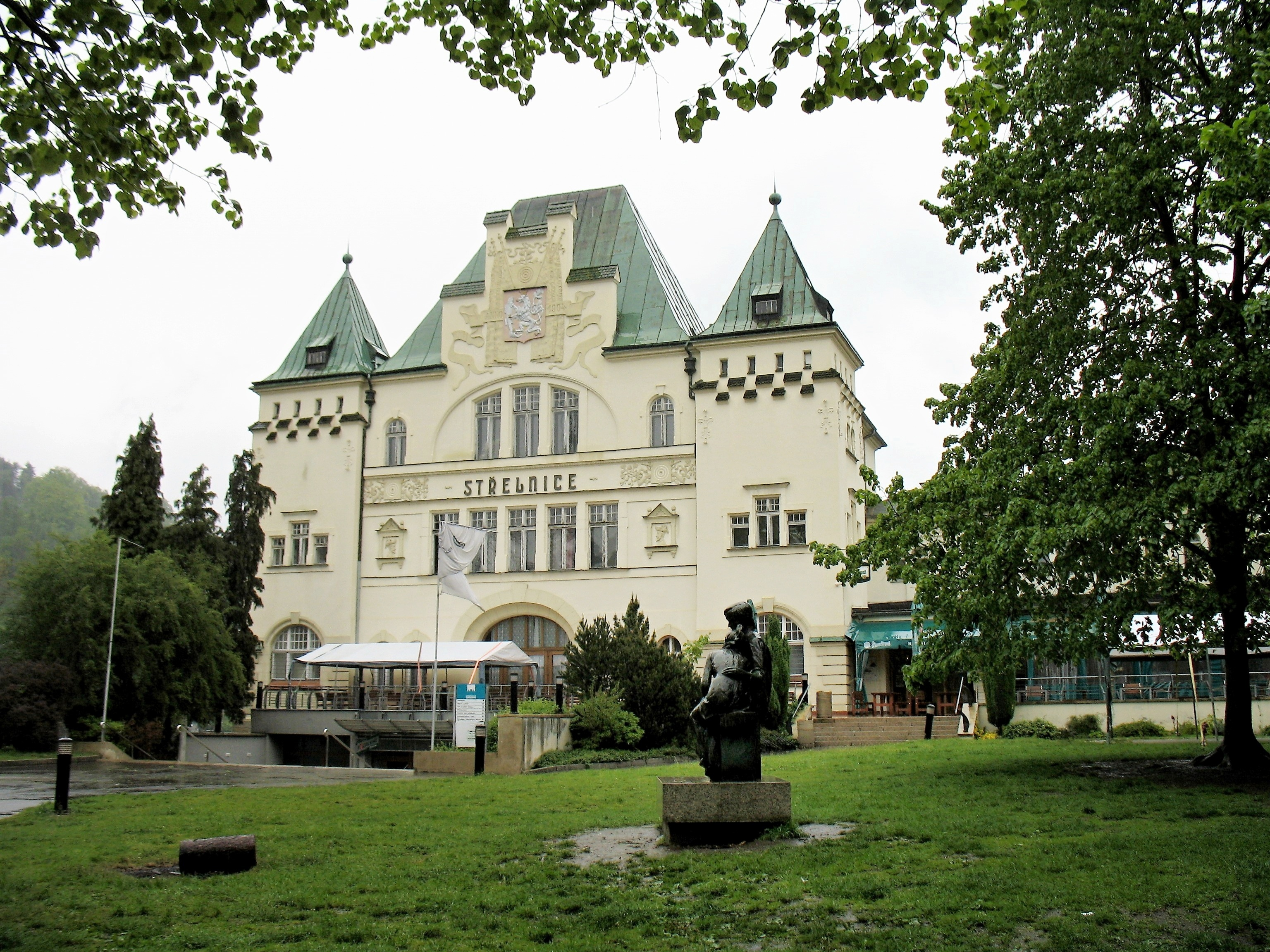 Restaurant Střelnice in Děčín, Czech Republic